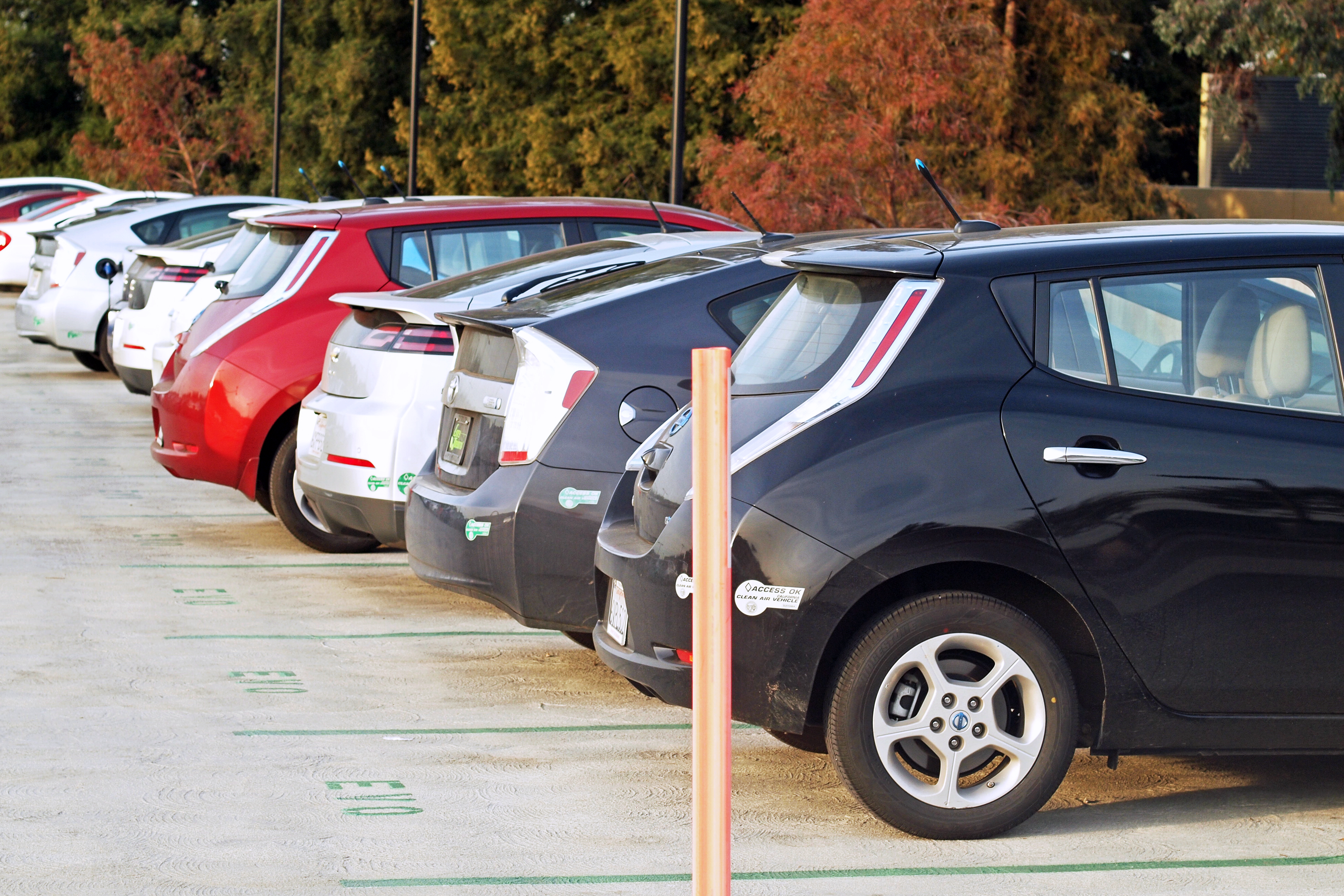 About a dozen charging outlets here, with, right to left, Nissan Leaf, Toyota Prius PHEV, Chevy Volt, Nissan Leaf, Nissan Leaf, Chevy Volt, Toyota Prius PHEV. All getting ready for the drive home. VMware, 2 story lot, Building E, 3401 Hillview Ave Palo Alto, CA 94304